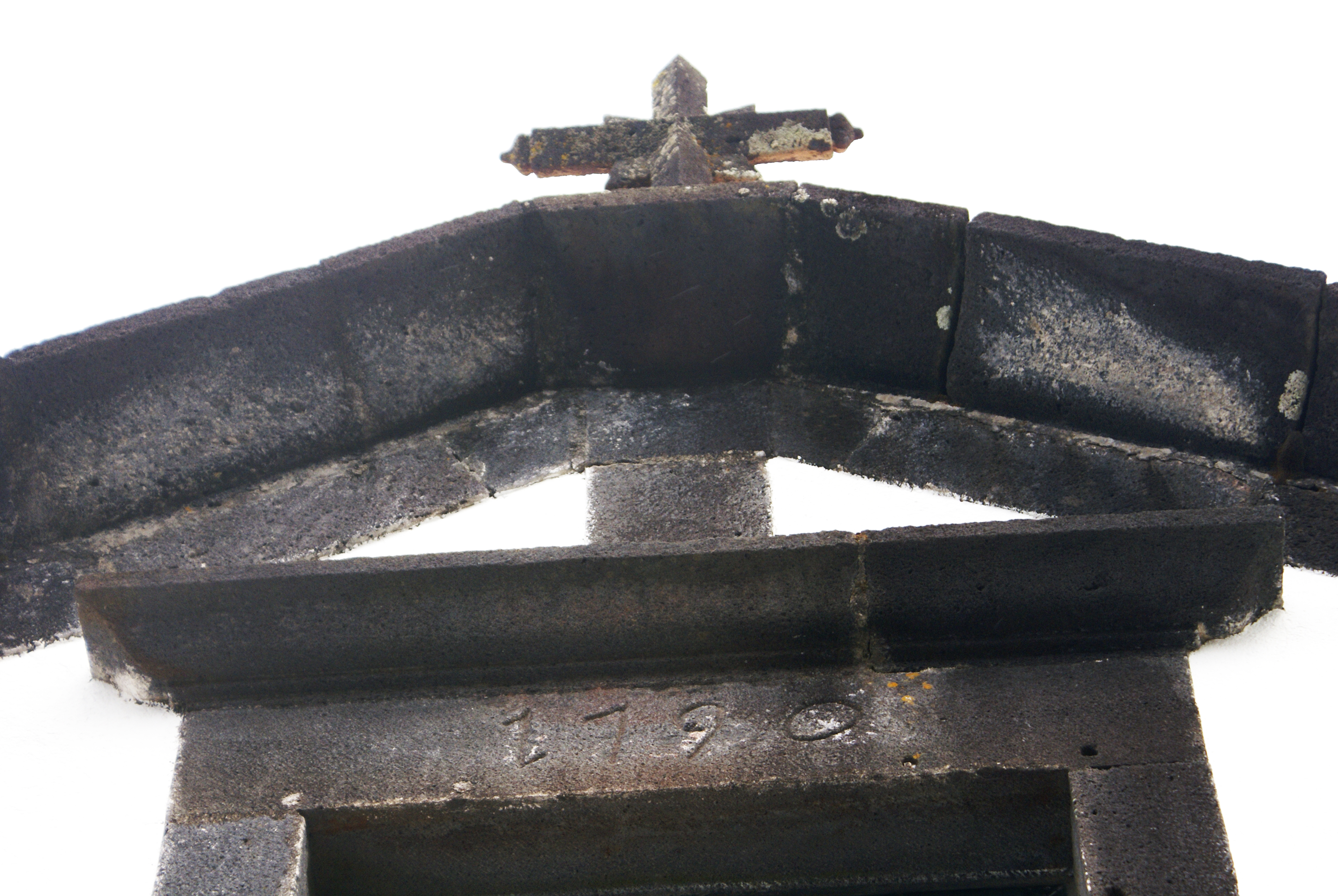 Archway of the Chapel of Nossa Senhora da Penha de França, Praia do Norte, Horta, Faial (Azores), Portugal